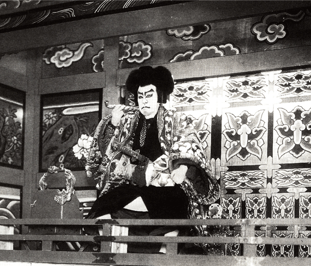 Enjaku Jitsukawa II (1877–1951) as Ishikawa Goemon in the May 1950 production of Sanmon